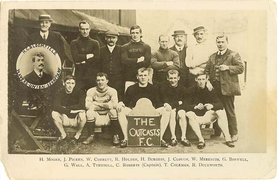 The Manchester United 1909-10 team, known as the "Outcasts FC".